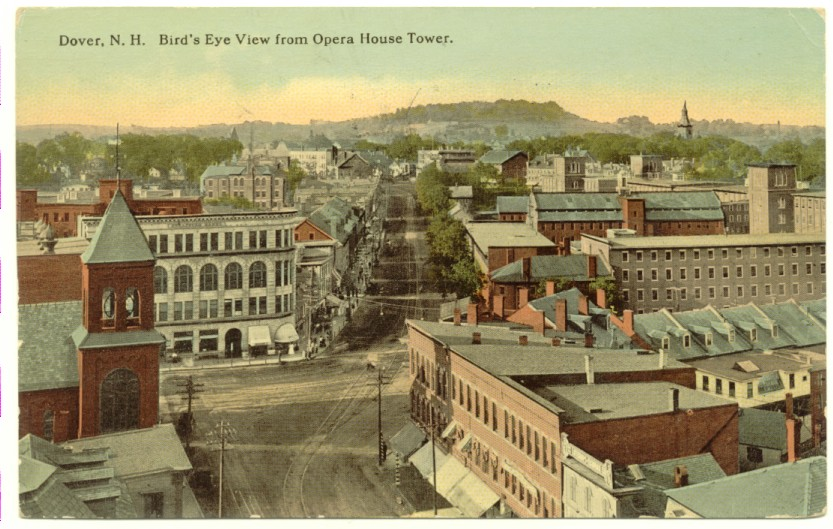 Original caption: ""Dover, N.H. Bird's Eye View from Opera House Tower.""